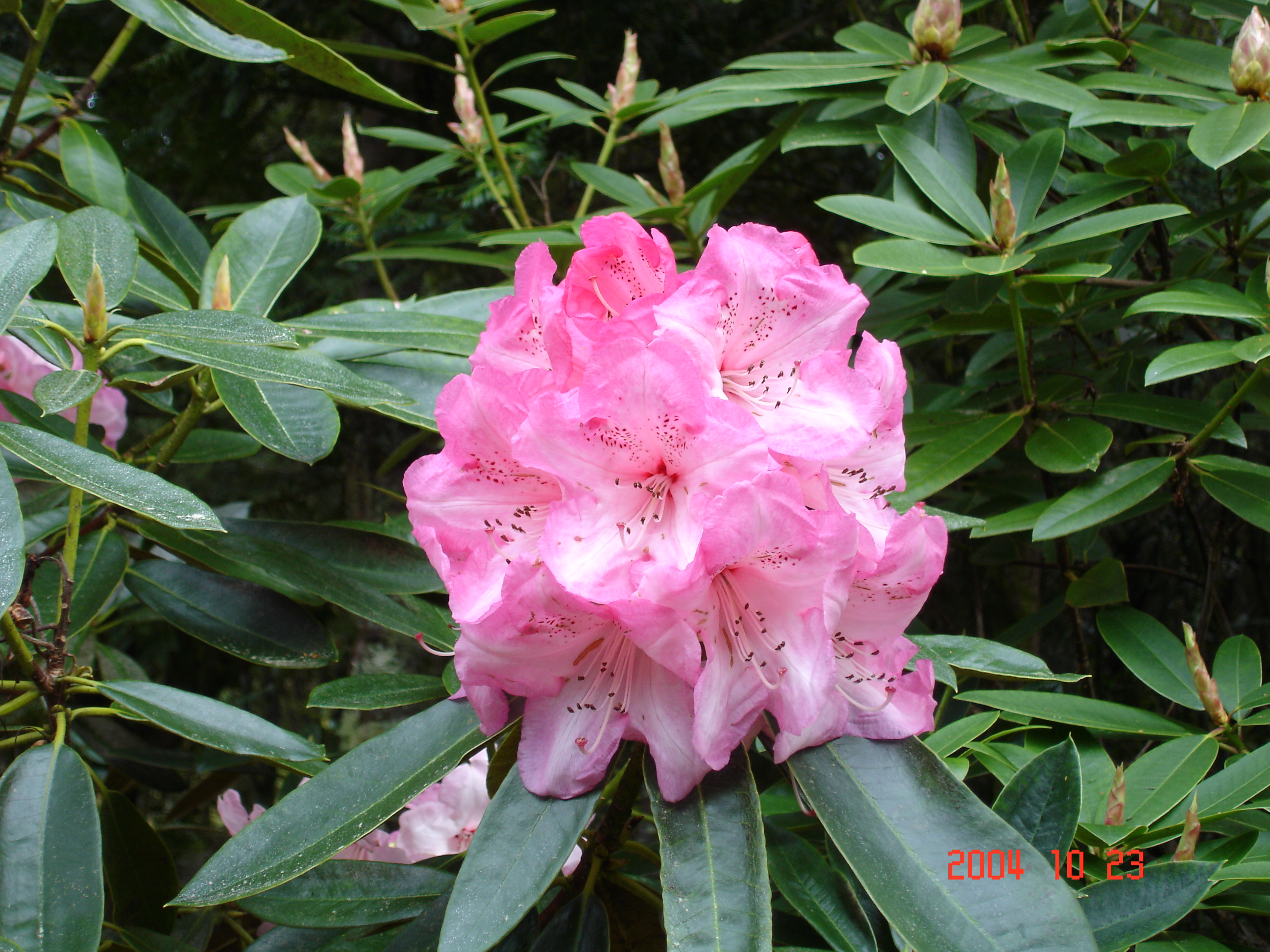 Tongariro National Park (New Zealand)